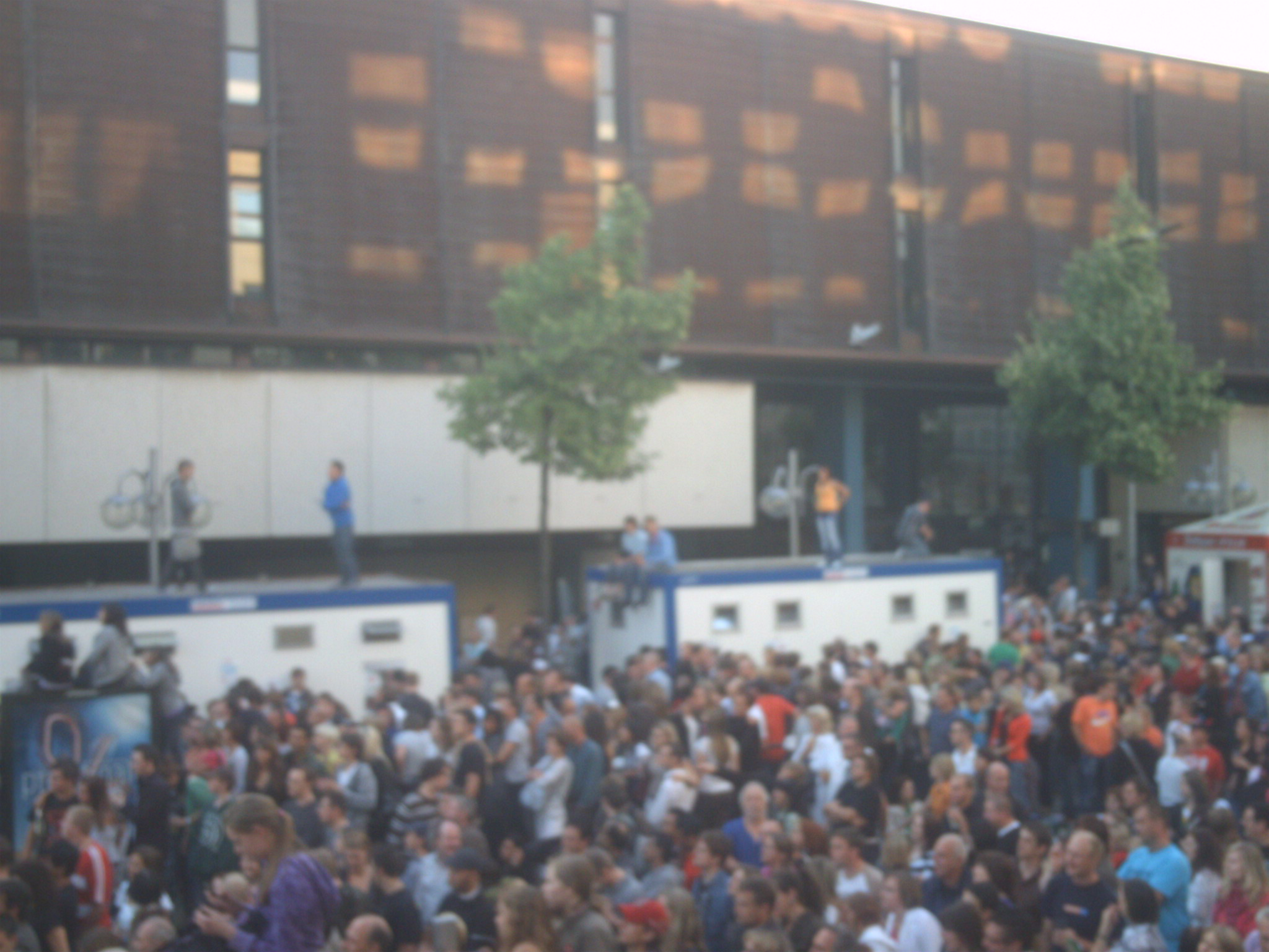 People on Arena of Sound, Mannheim